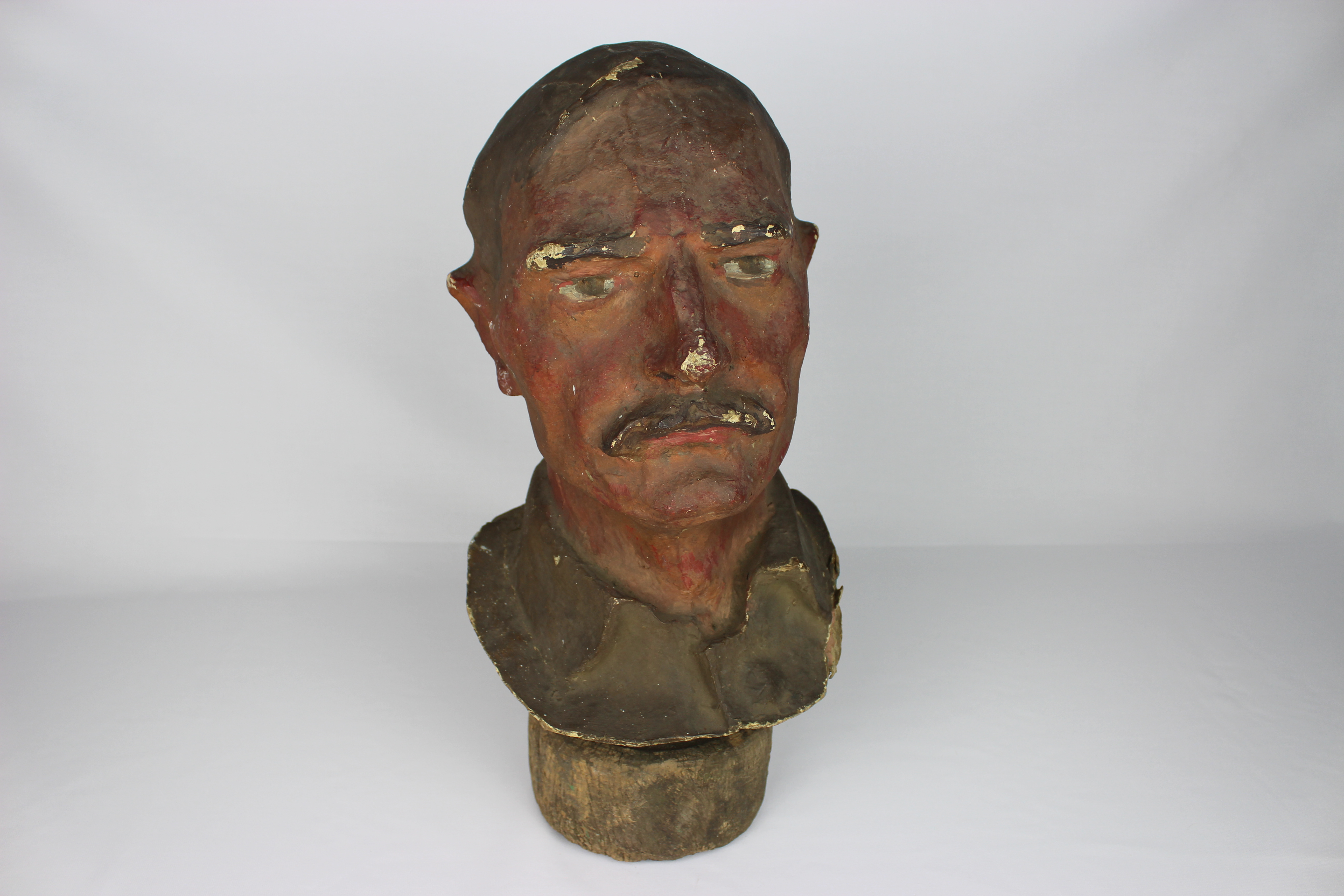 Dummy heads were a new innovation in World War One. They would be raised up over the parapet to draw out enemy fire. The angle of the bullet entry and exit holes could be used to work out enemy positions.